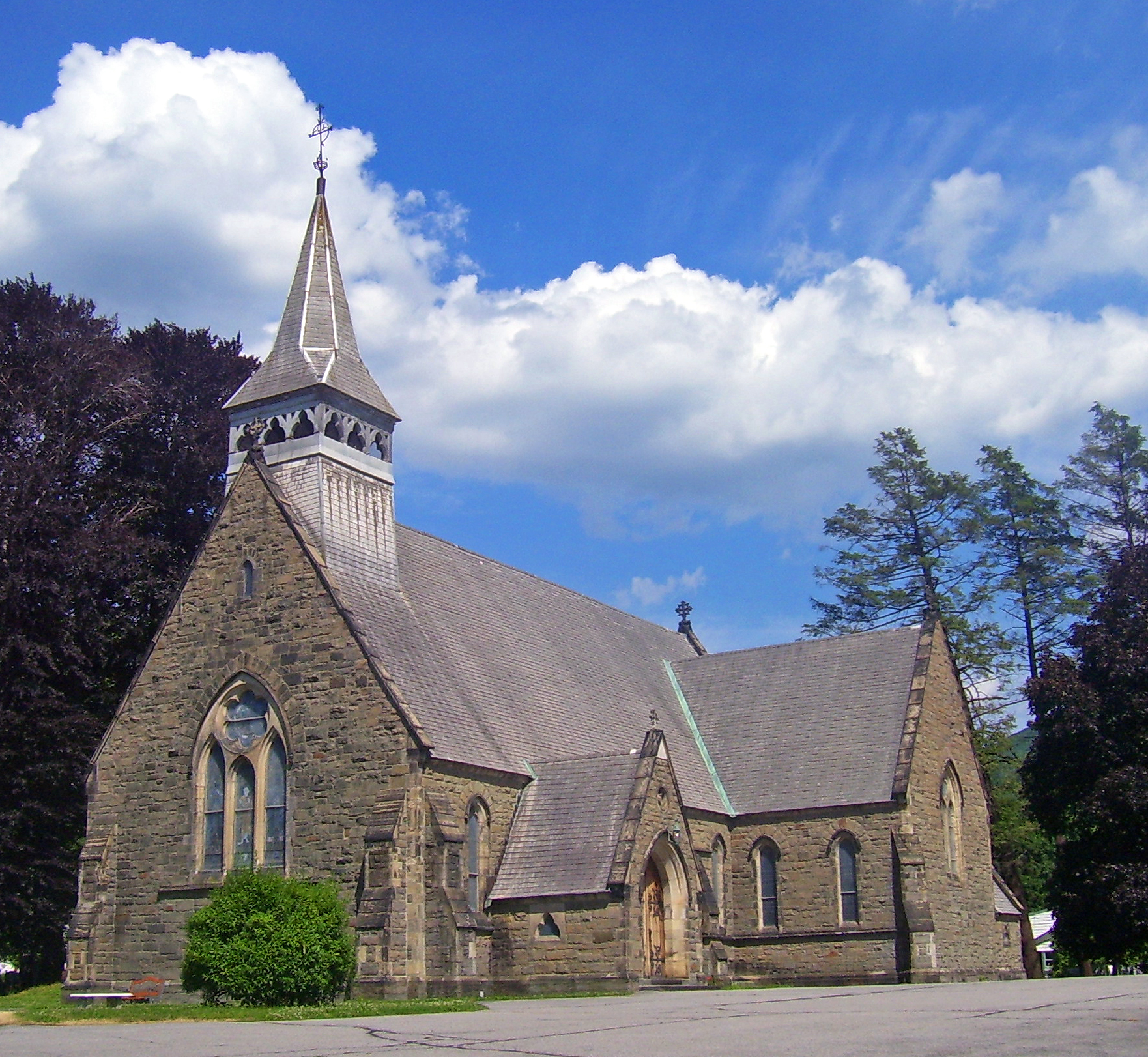 St. Luke's Episcopal Church, designed by Frederick Clarke Withers, in Beacon, NY, USA